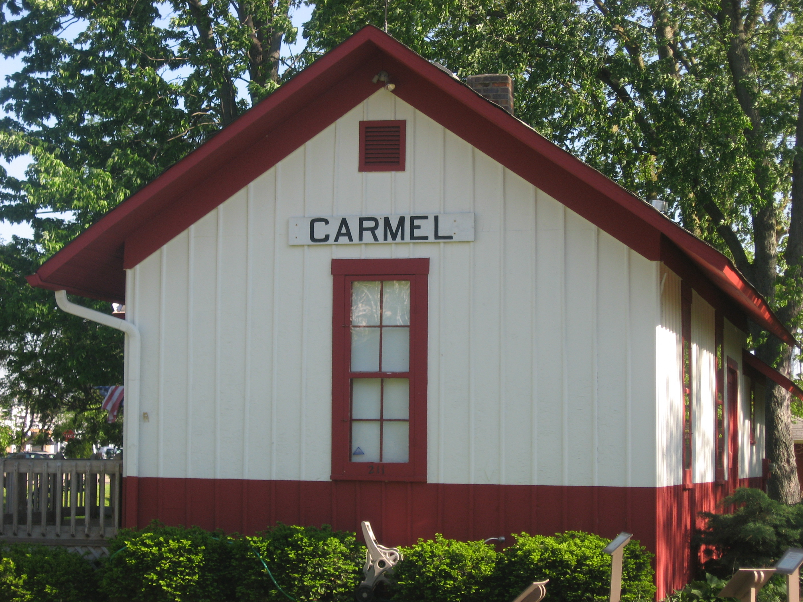 Front and western side of the Carmel Monon Depot, located at 211 First Street, Southwest in Carmel, Indiana, United States. Built in 1883, it is listed on the National Register of Historic Places.